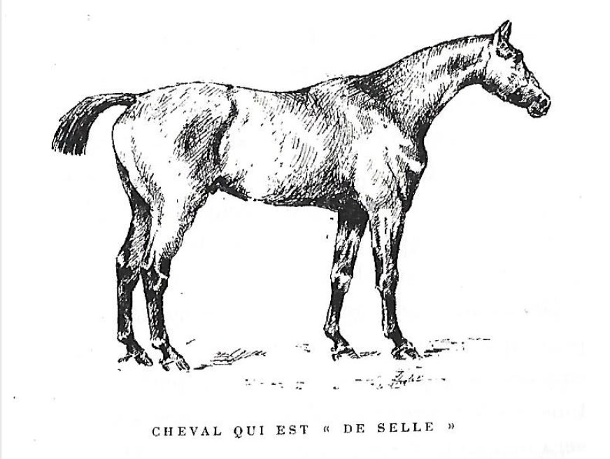 Printmaking of the conformation of a riding horse